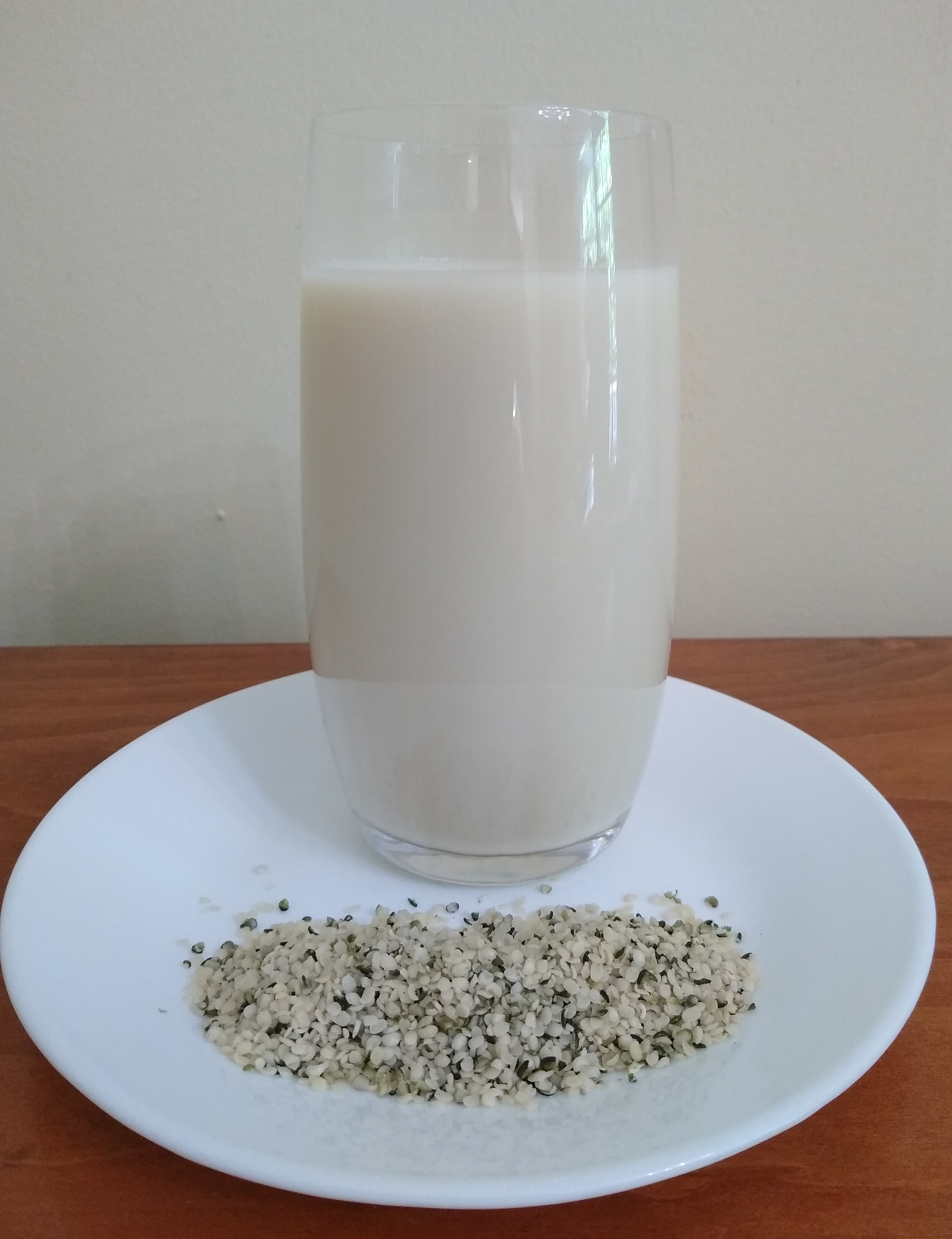 A glass of Tempt "Original" hemp milk with Trader Joe's shelled hemp seeds.